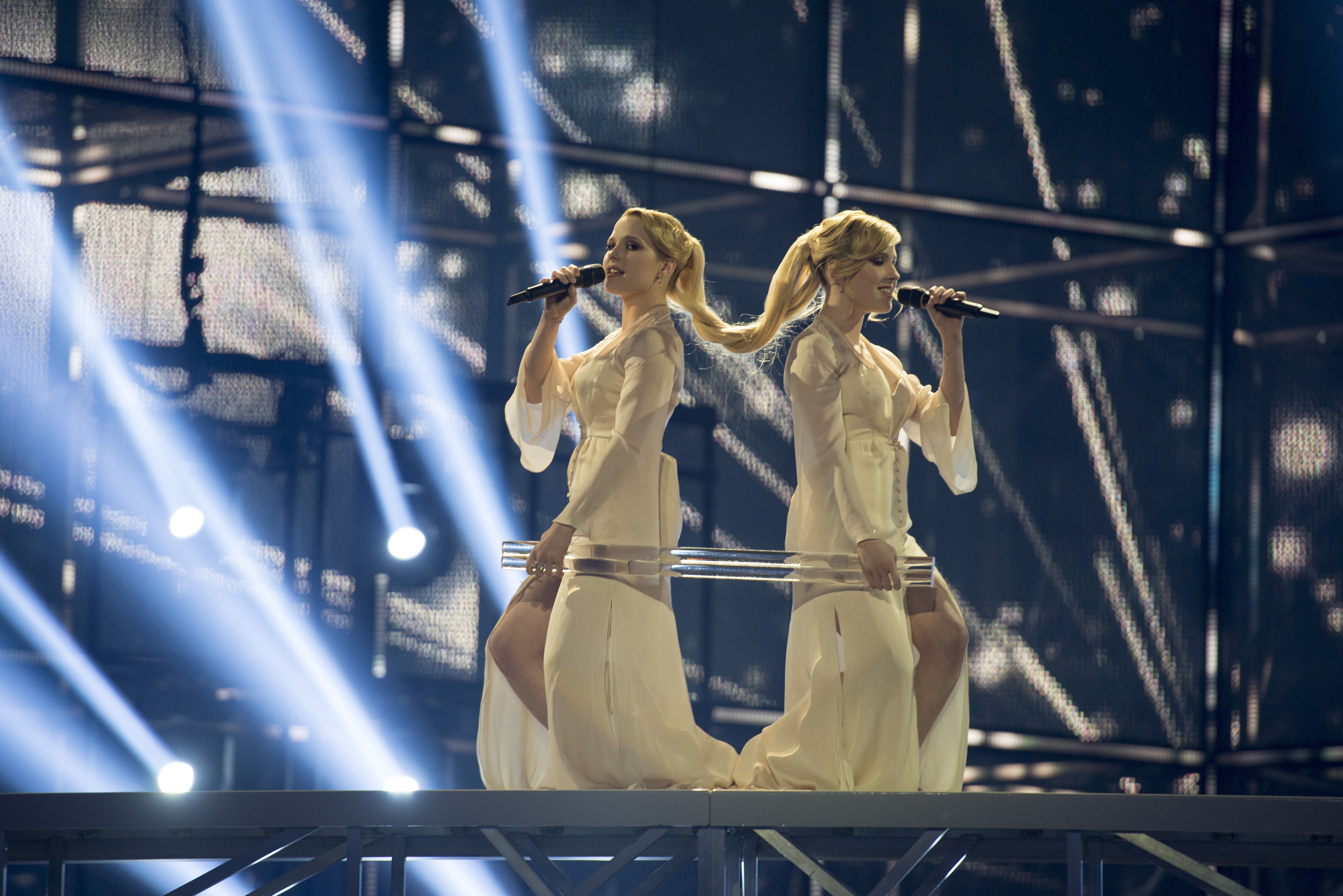 The Tolmachevy Twins representing Russia with the song "Shine" during the first dress rehearsal of the first semi final of the Eurovision Song Contest 2014 Copenhagen. (Help translate this text)